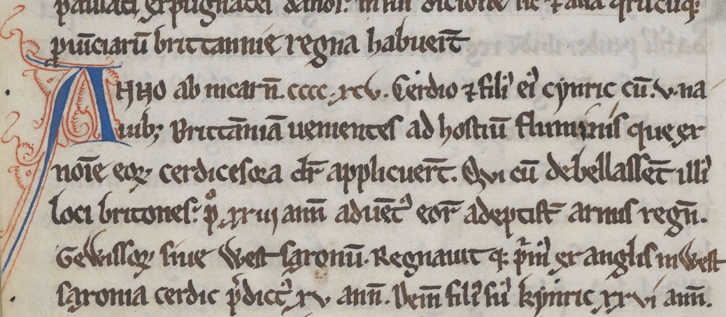 MS. BL_Cotton_Domitian_A_VIII f. 4v detail: arrival and reign of Cerdic